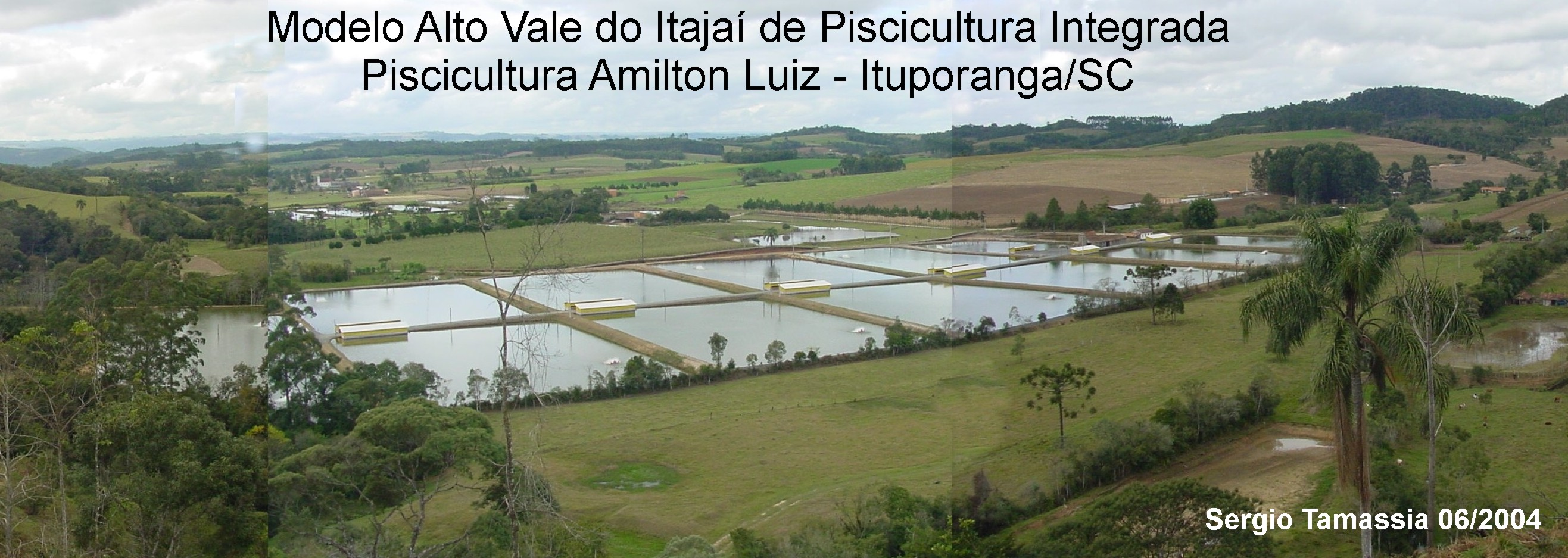 Panoramic View of Fish Farming Amiltom Luiz.